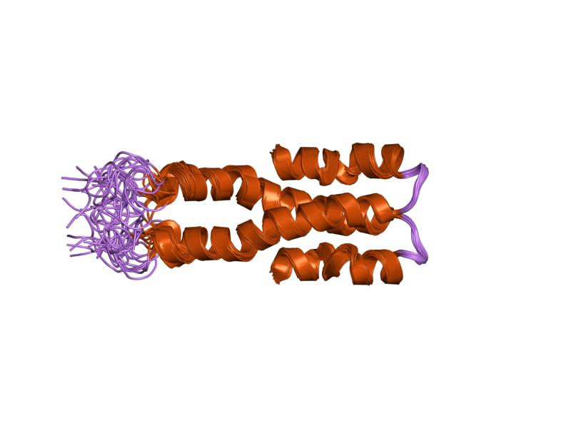 Cartoon representation of the molecular structure of protein registered with 1lr1 code.